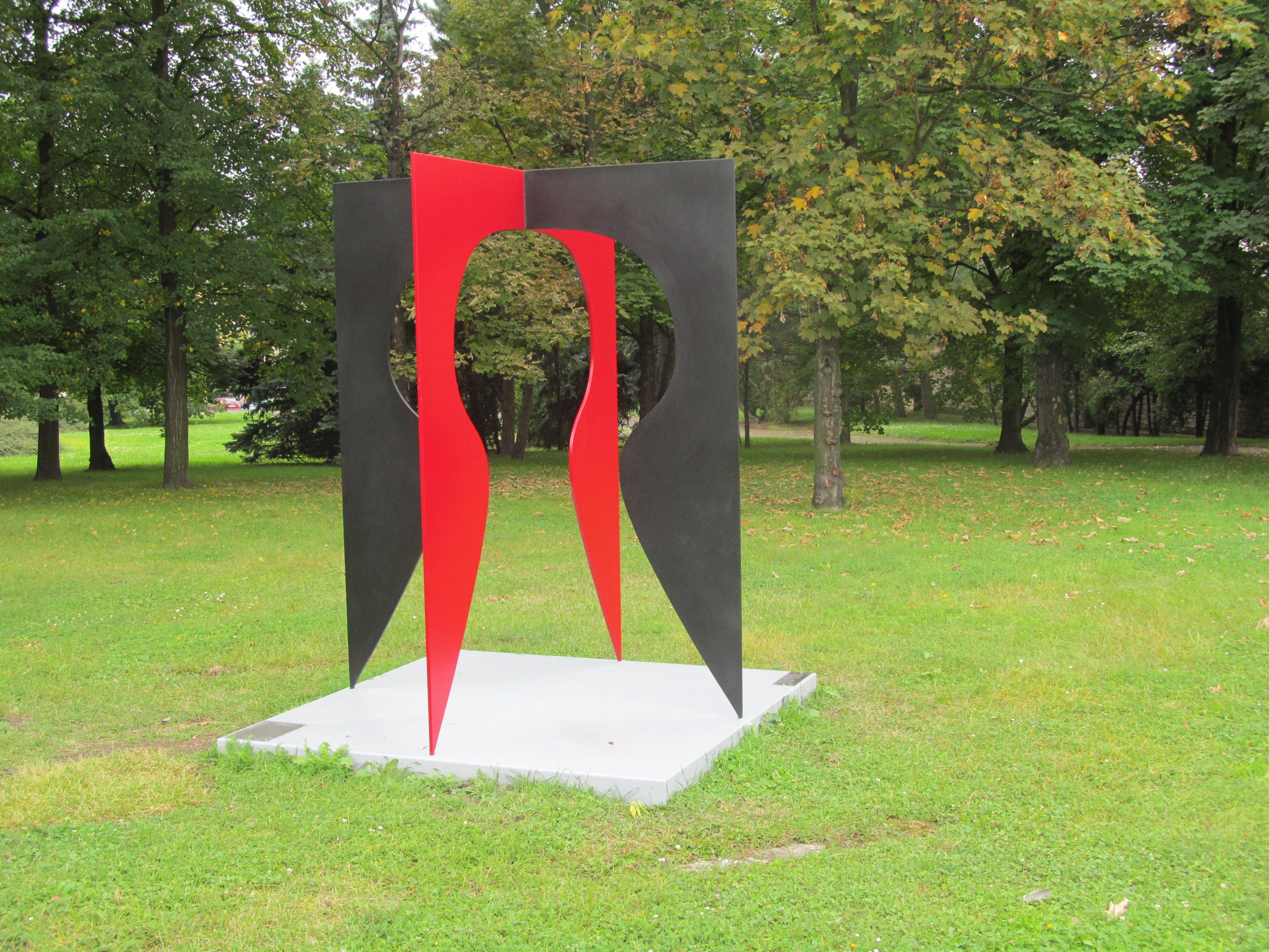 Kamil Linhart: Negative Head, 1968, situated in Louny